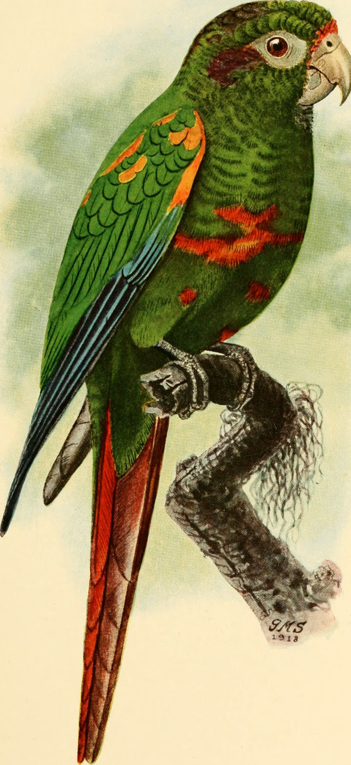 Title: Annals of the Carnegie Museum Year: 1922 (1920s) Authors: Carnegie Museum; Carnegie Museum of Natural History Subjects: Carnegie Museum; Carnegie Museum of Natural History; Natural history Publisher: [Pittsburgh : Published by authority of the Board of Trustees of the Carnegie Institute] Text Appearing Before Image: Annals Carnegie Museum Vol. XIV, pi. Ill Text Appearing After Image: Pyrrhura viridicata Todd, 9 (Four-fifths natural si2e)